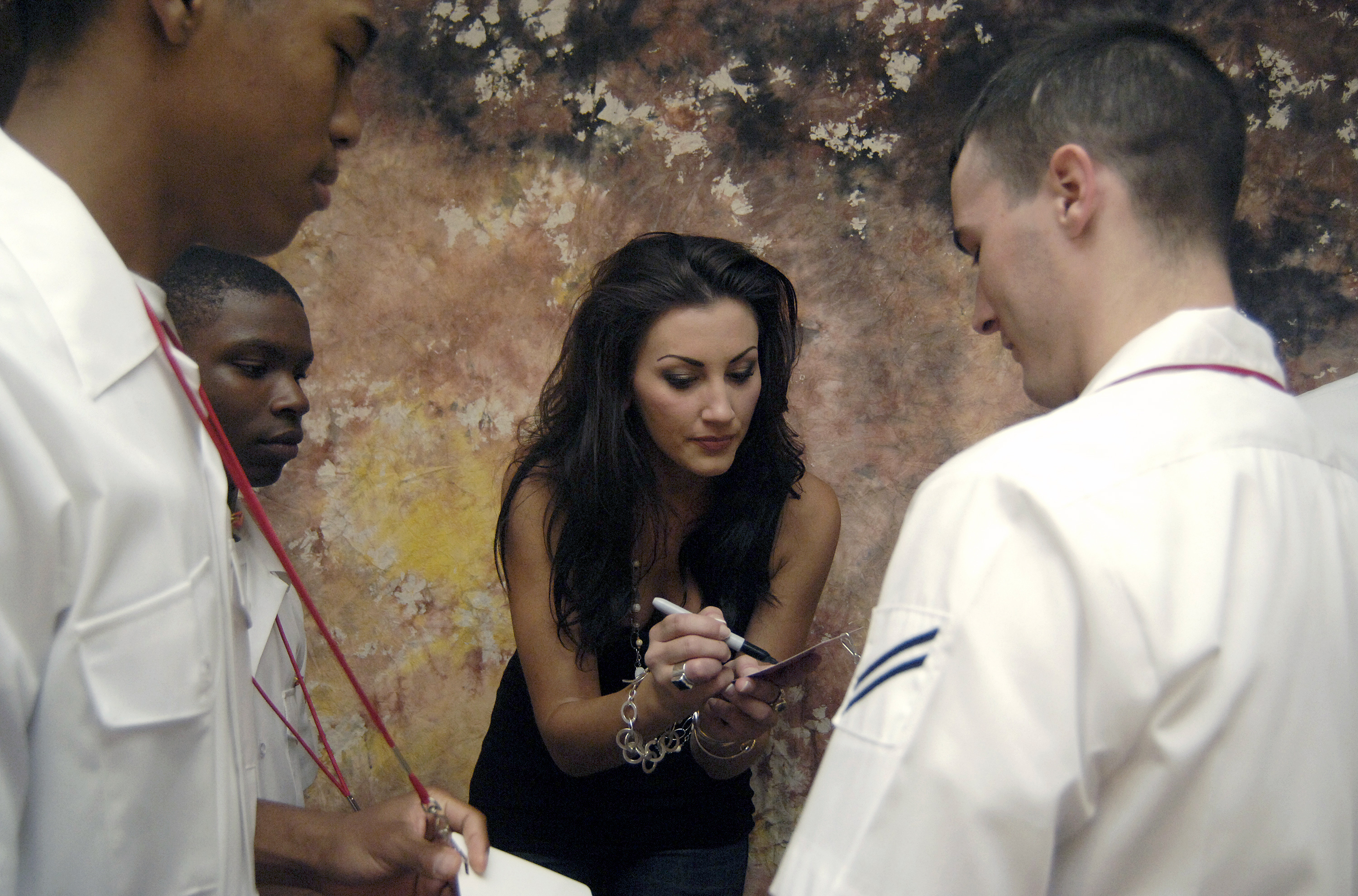 PD as work of U.S. federal government. Summary from source page: 070531-N-8467N-004 GROTON, Conn. (May 31, 2007) – Country singer Danielle Peck signs autographs for students at Basic Enlisted Submarine School at a meet and greet before taking the stage. Peck played a free concert at Submarine Base New London as part of The Spirit of America Tour.